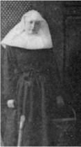 A beguine in the 19th century